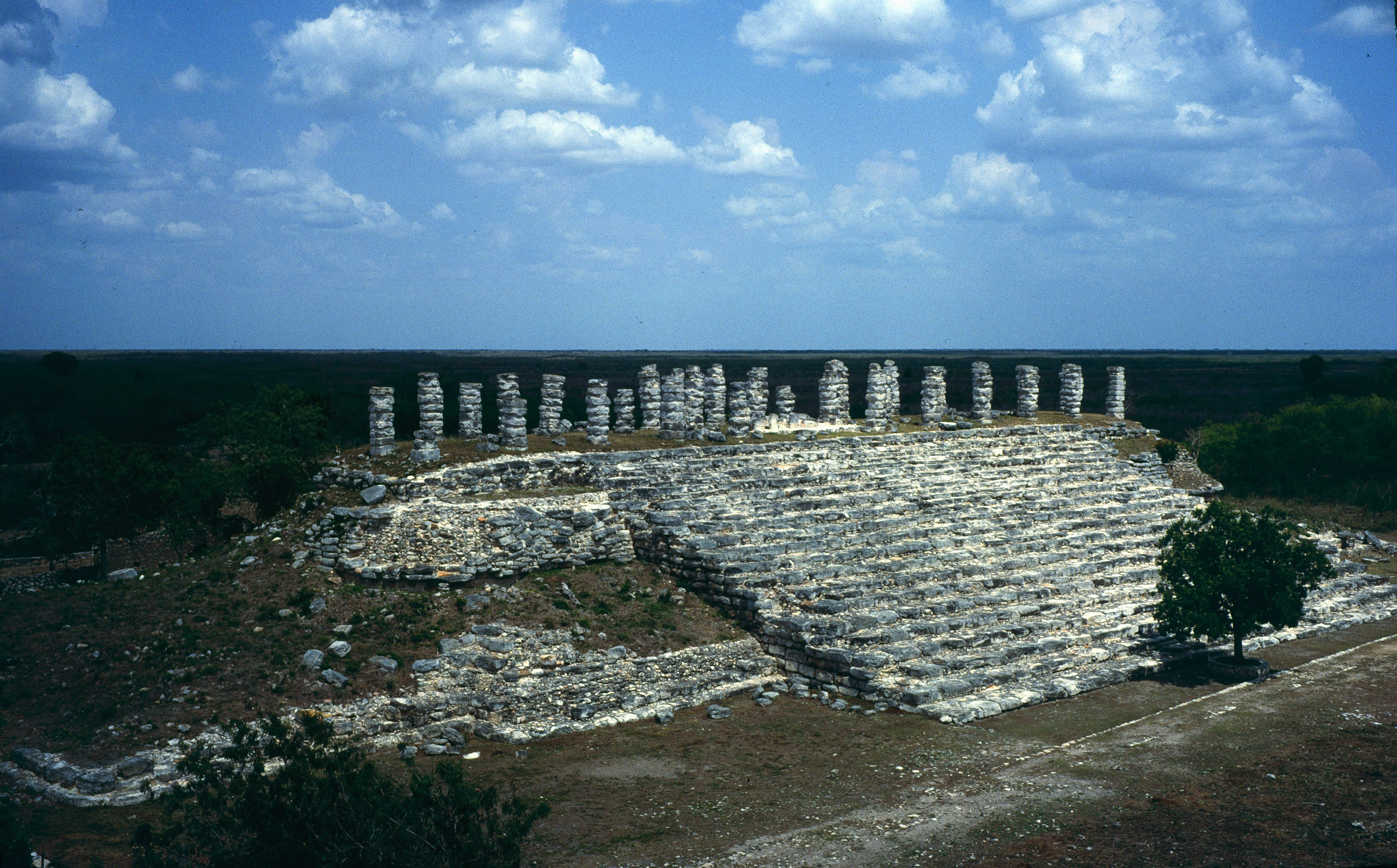 Ake, Yucatan, Mexico: Palace of the Columnes